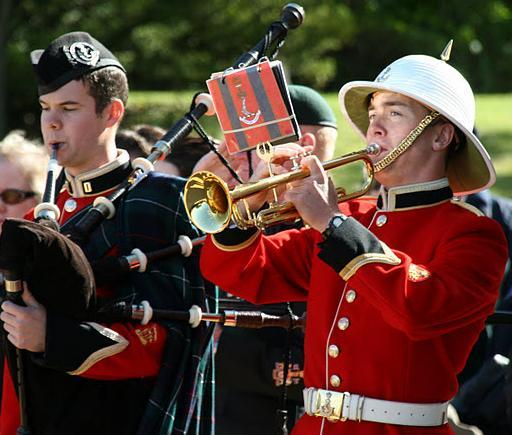 Royal Military College of Canada band piper and bugler, Remembrance Day